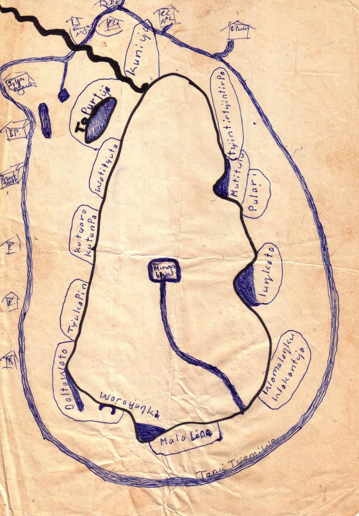 Tjamiwa drew this map of the main sites around Uluru for me.